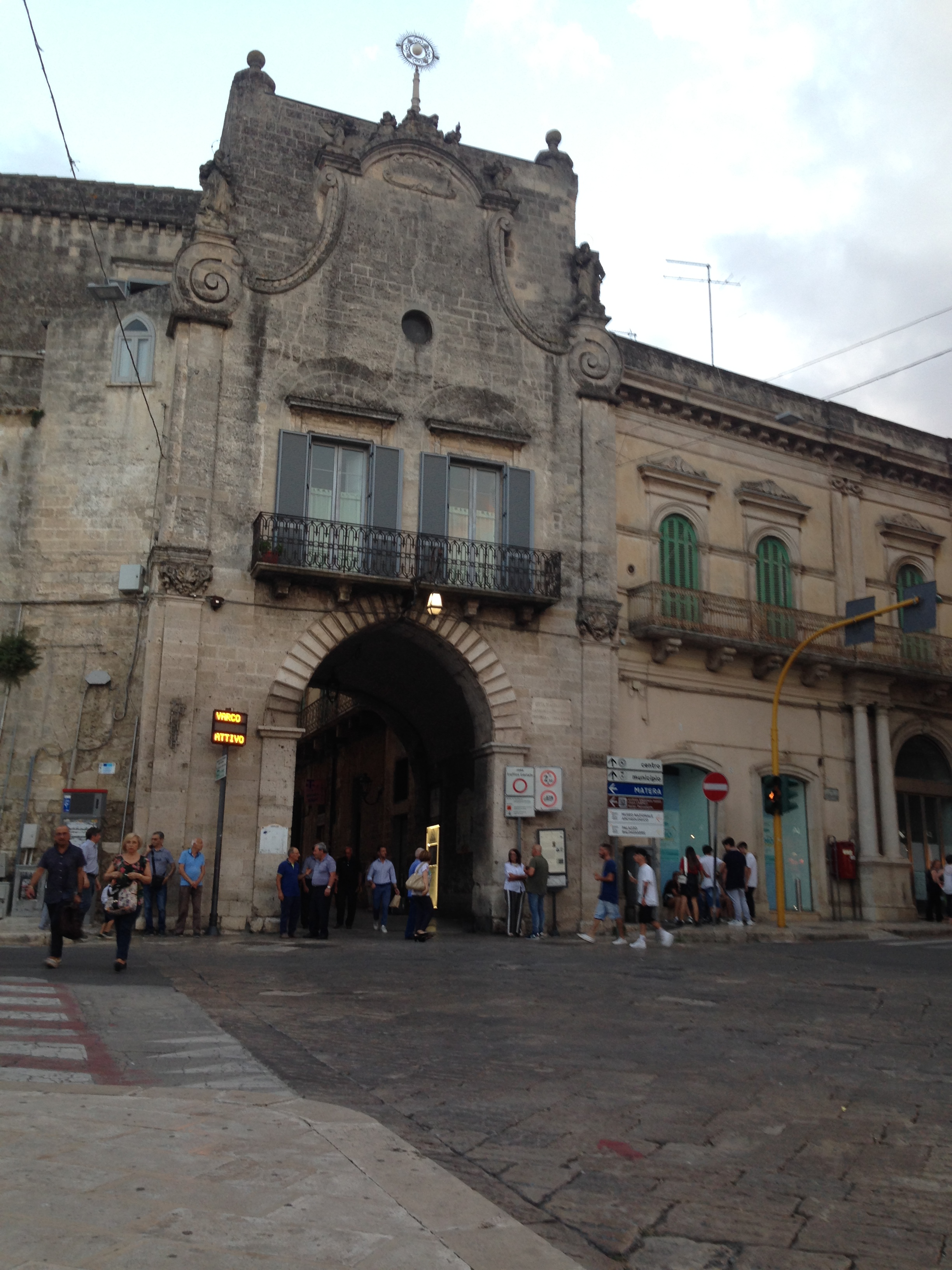 The gate called Porta Bari, located in Altamura. This gate, as well as the surrounding construction was part of Altamura's ancient city walls. The right side is still intact, while the left side has been torn down in the XIX century. Nowadays what remains of the ancient city walls is still visible just in a few parts. Until a few centuries ago, the outside area of the city walls was uninhabited countryside, except a few churches and monasteries. This is visible in many paintings, such as the painting inside Cesare Orlandi's book.